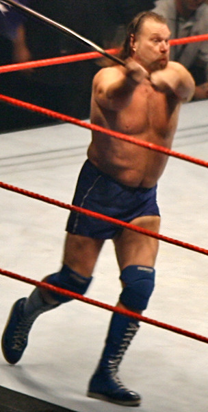 Hacksaw Jim Duggan making his ring entrance. Taken during the WWE Raw - Survivor Series Tour, at Rod Laver Arena, Melbourne Park, Melbourne, Australia. Duggan wrestled Santino Marella on the night; Duggan won the match, pinning Marella following a three-point stance tackle.